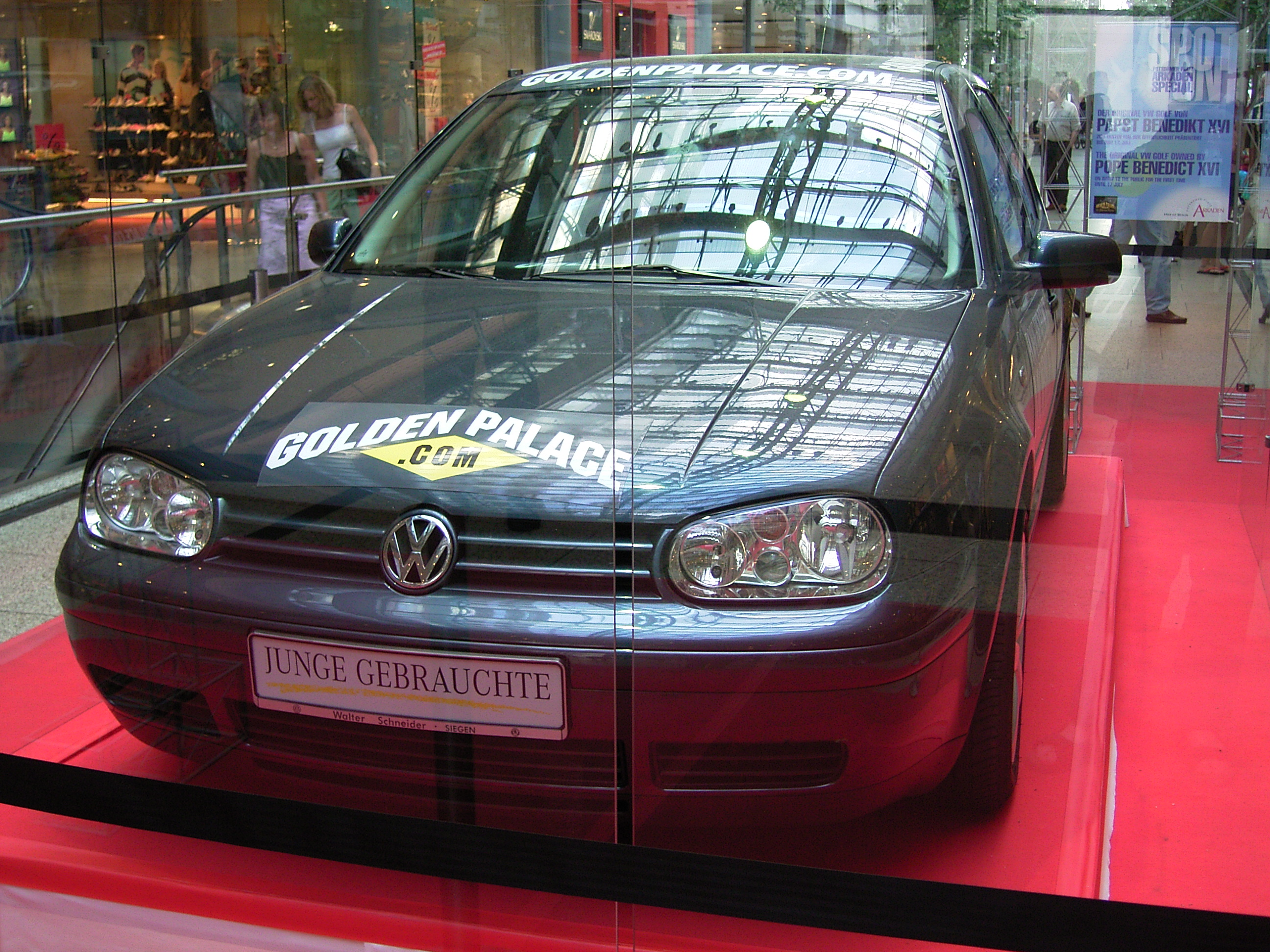 The Pope Volkswagen Golf, sold at eBay for about 188.000€